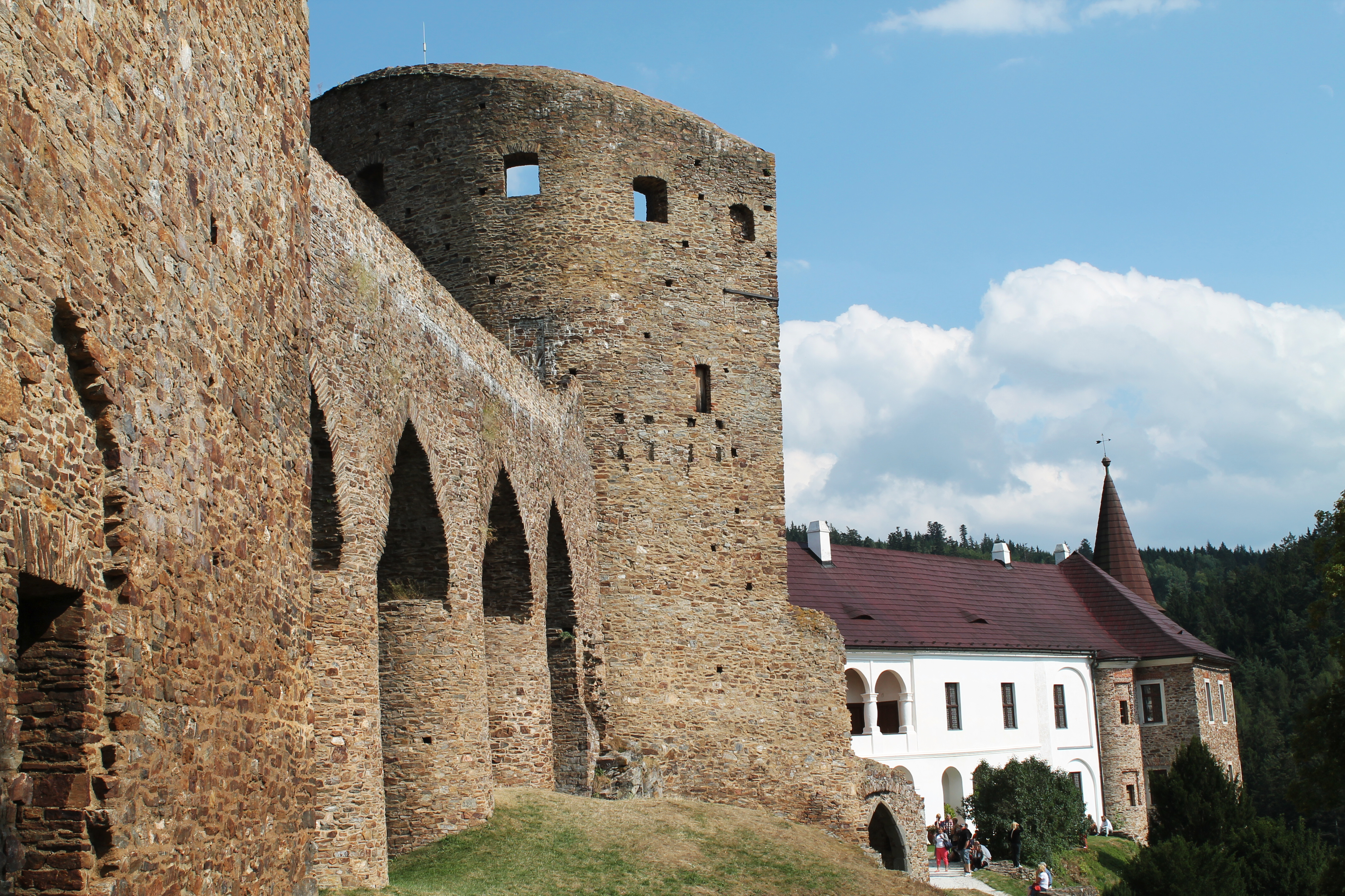 Velhartice castle, Klatovy District, Czech Republic - Google Maps - Google Earth